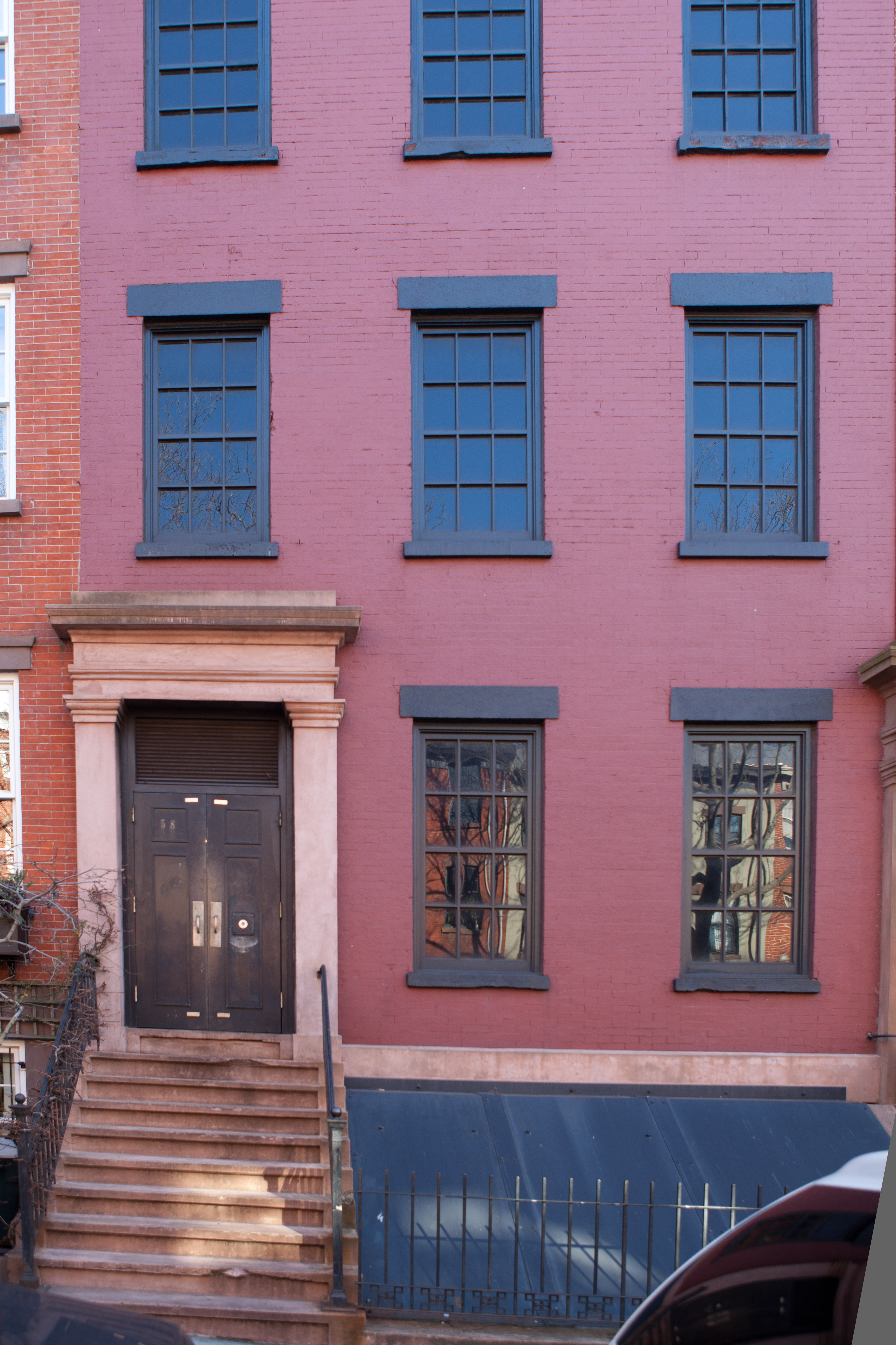 The facade of 58 Joralemon, a New York subway service entrance disguised as a townhouse in Brooklyn Heights.